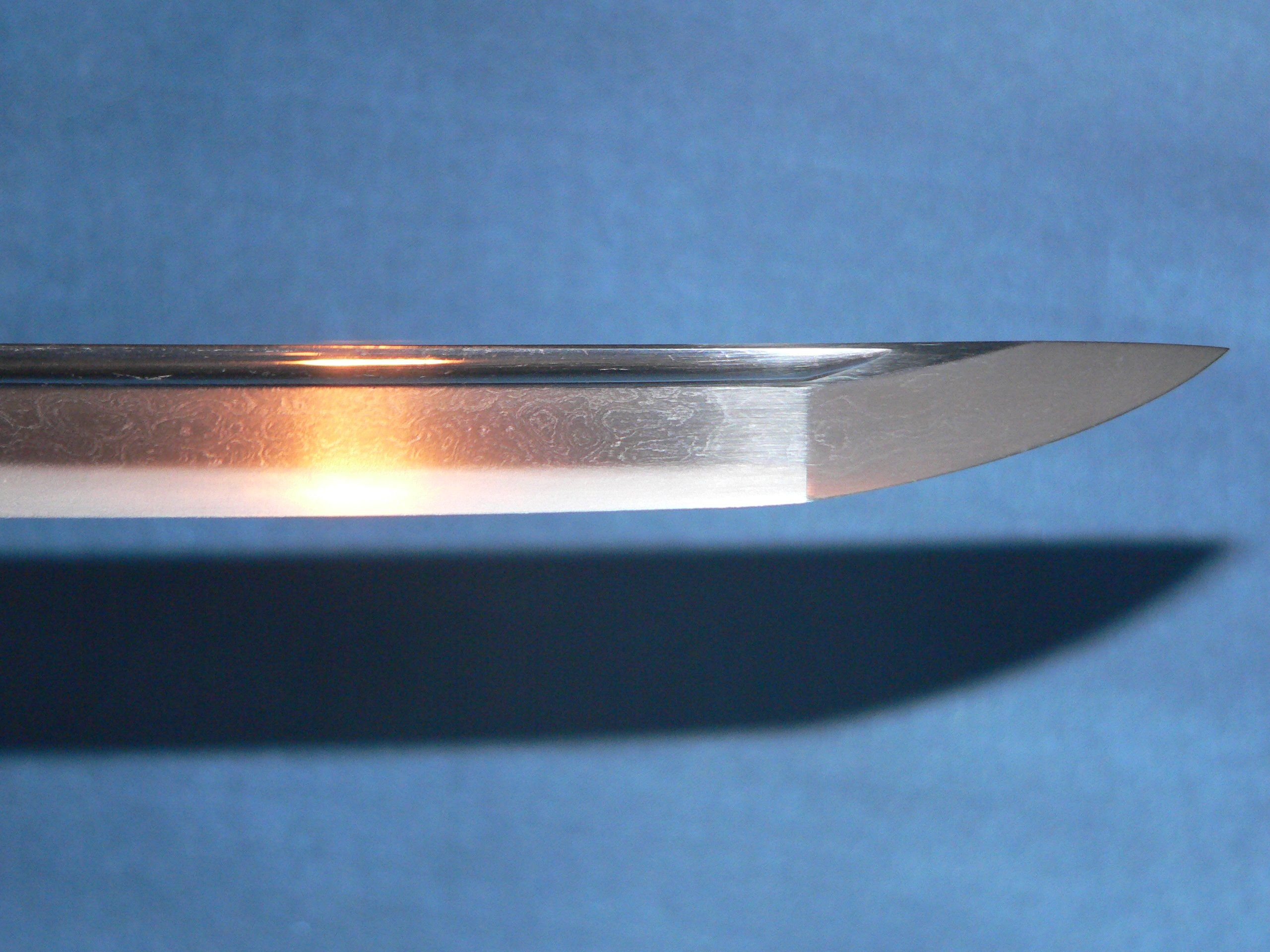 tachi blade, Bizen school, signed "Tachimei, Bizen no Kuni Osafune Yoshi..."; Nambokusho era (14th century). The nakago was cut through the signature, but the artist is still identifiabe as Yoshigake.